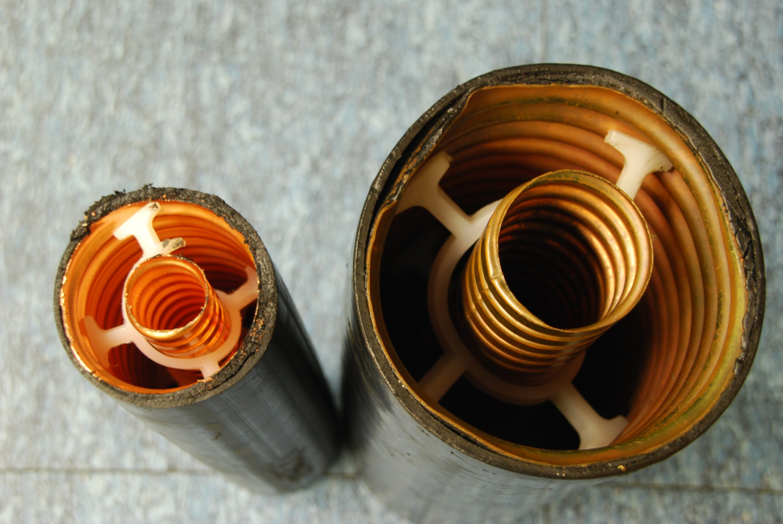 Coaxial cables, the left one for digital TV-signals, the right for analog TV-signals, used in the Swisscom Television Tower St. Chrischona, Switzerland